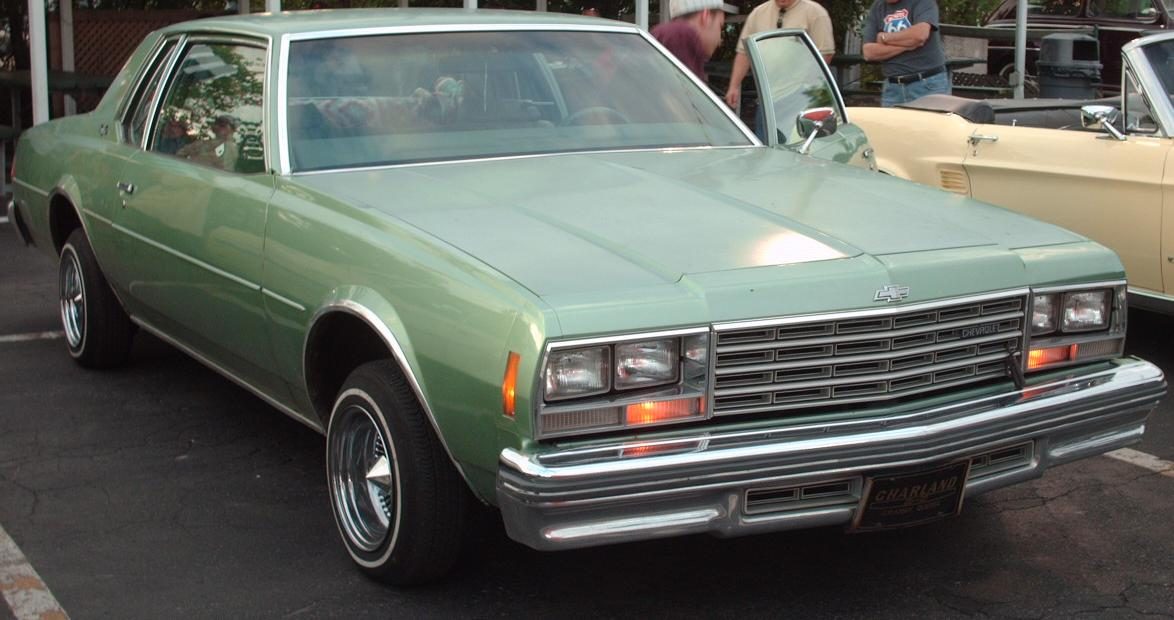 1978 Chevrolet Impala coupe photographed in Montreal, Quebec, Canada at Gibeau Orange Julep.